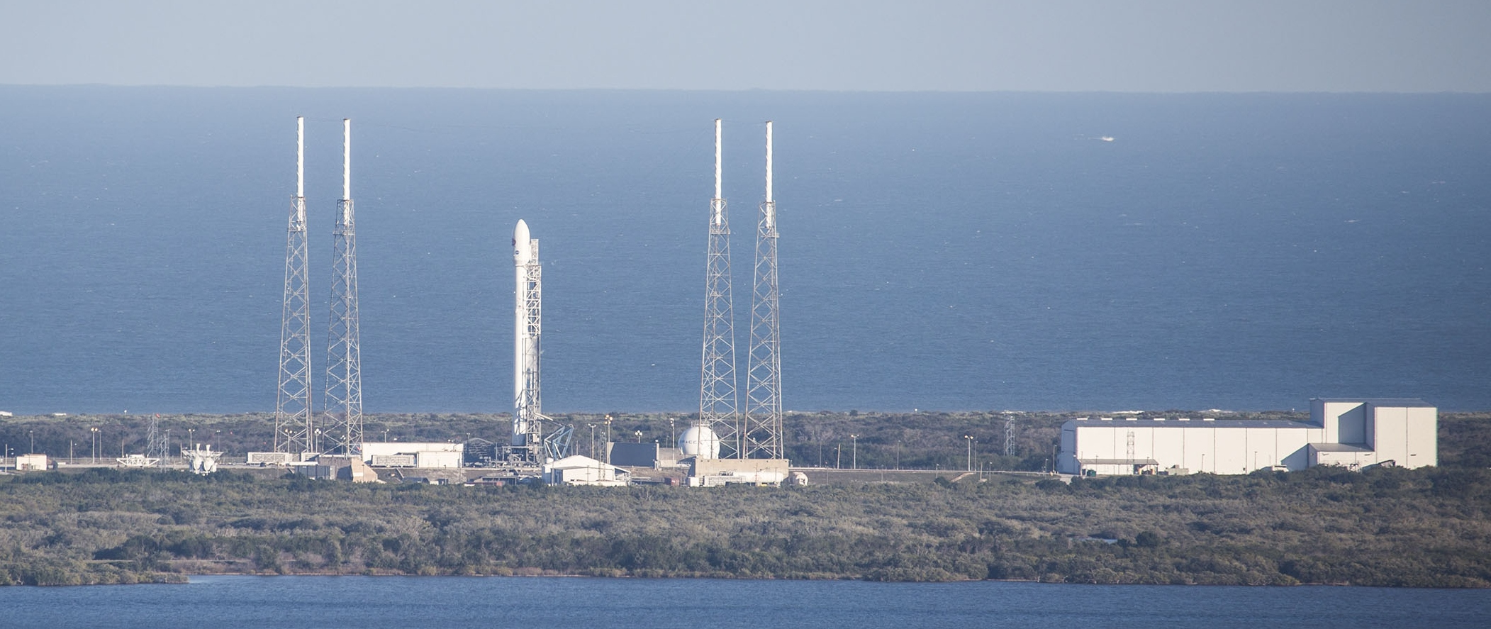 Just before sunset at 6:03pm ET on Wednesday, Feb. 11th, Falcon 9 lifted off from SpaceX’s Launch Complex 40 at Cape Canaveral Air Force Station, Fla. carrying the Deep Space Climate Observatory (DSCOVR) satellite on SpaceX’s first deep space mission.